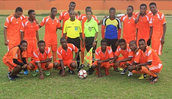 A group photograph of the Rhema University Football team before a match play.